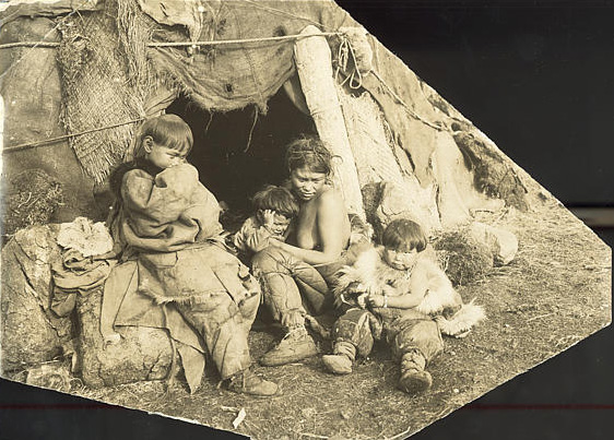 Chukchy sitting in front of a yaranga.